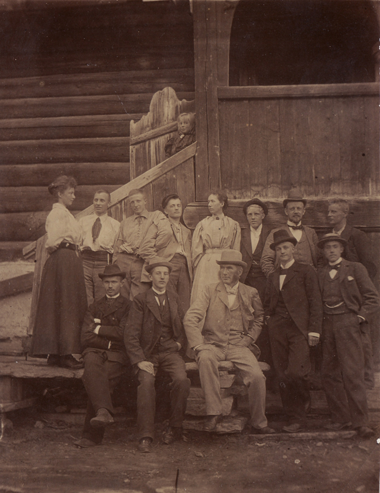 The Norwegian architect H.M. Schirmer (first row, in a light suit) with architecture students on an excursion in Heidal, Norway, to study old, Norwegian wooden architecture, from the 17th and 18th century